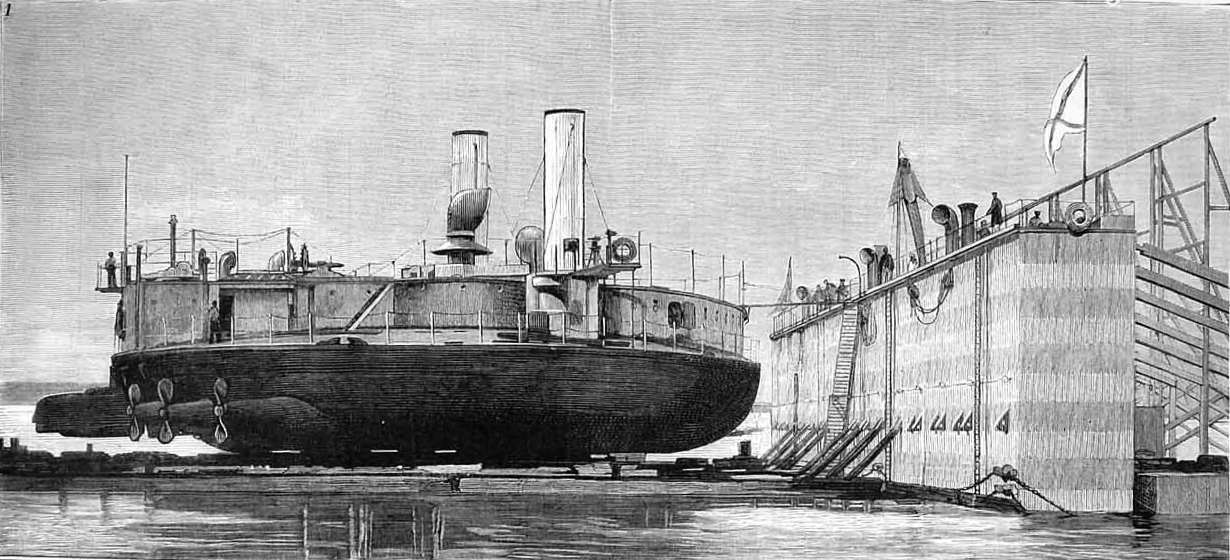 The Russian Imperial Dock at Nicolaieff in 1878. The Vice Admiral Popoff a Round Circular Ironclad in the dock. Taken from The Graphic. J3241823852